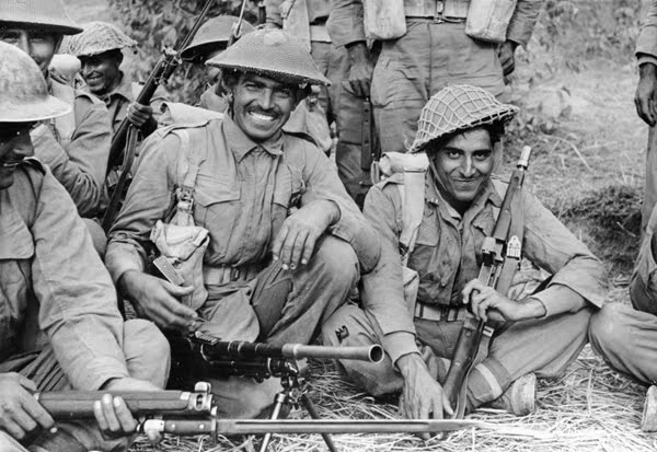 An Indian infantry section of the 2nd Battalion, 7th Rajput Regiment about to go on patrol on the Arakan front, Burma 1943